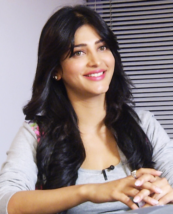 Actress Shruti Haasan gives a behind-the-scenes interview for the English, Hindi, and Tamil language version of the TeachAIDS animations at Annapurna Studios in Hyderabad, Andhra Pradesh. Photo credit: TeachAIDS